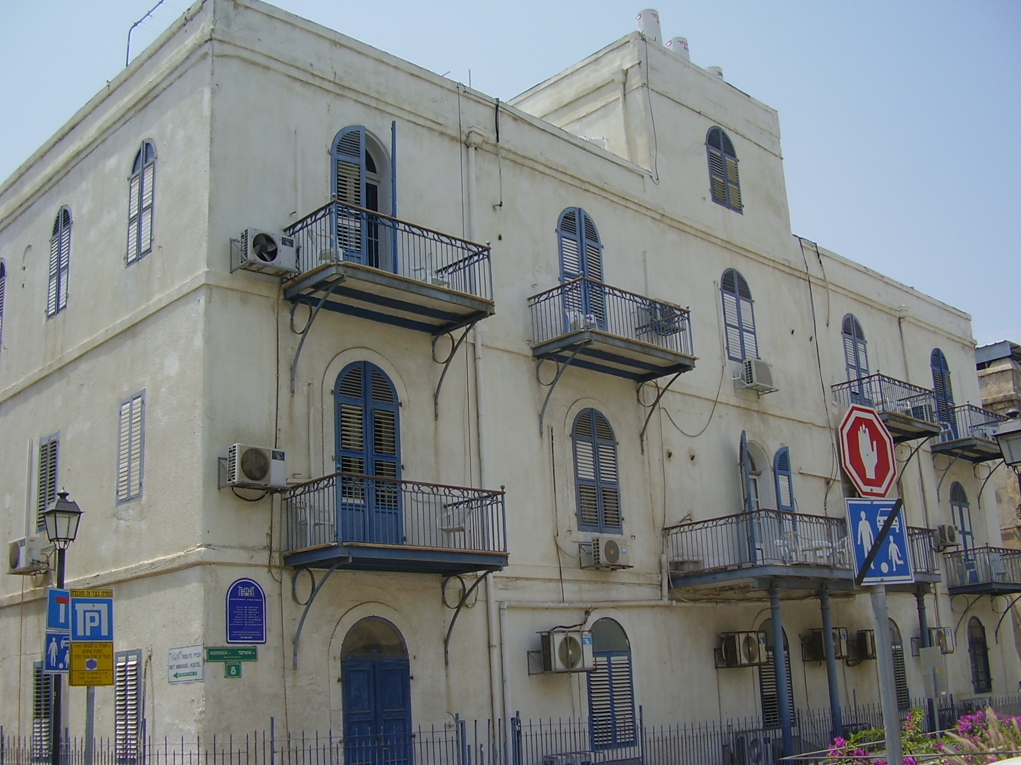 emmanuel house hostel in jaffa